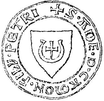 Coat of arms Jastrzębiec - the oldest depiction